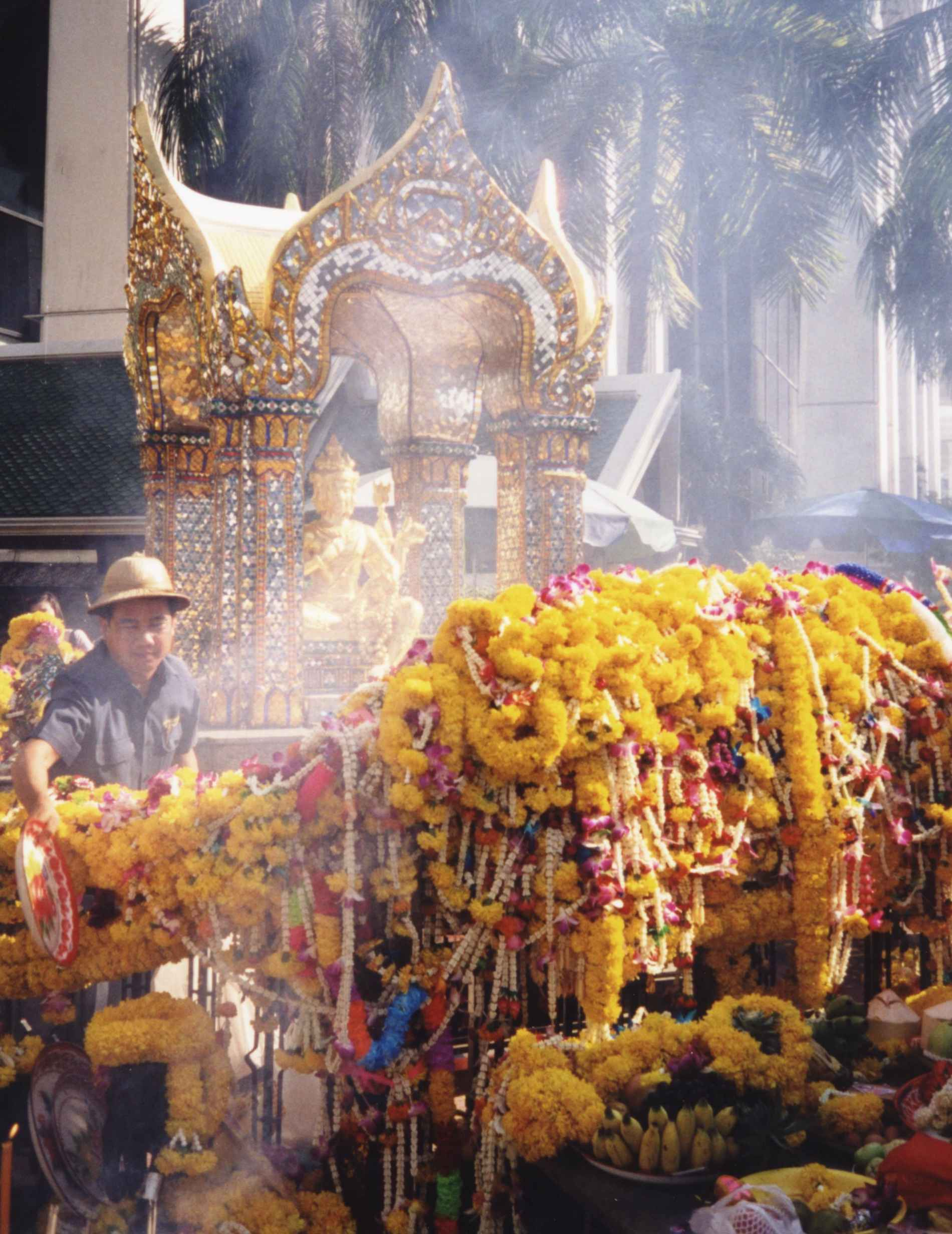 Erawan shrine, Bangkok. The big amount of flowers donated to the shrine, as well as the incense is clearly visible. Photo taken by User:Ahoerstemeier on November 5, 2000.